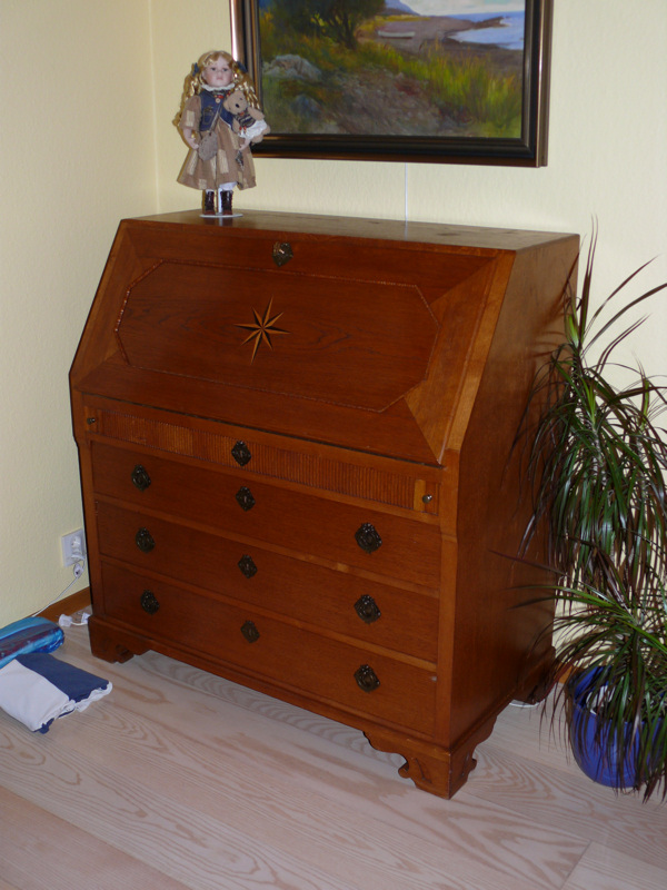 Escritoire.